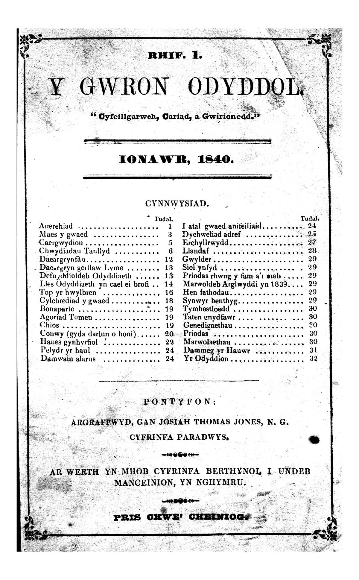 A monthly Welsh language general periodical serving the Oddfellows Friendly Society. The periodical's main contents were articles on science, literature, geography and the natural world alongside articles on Oddfellows duties and reports on their activities.